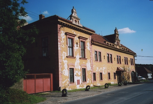 Velké Přílepy, Prague-West District, Central Bohemian Region, the Czech Republic. Pražská street, a house No 48. - Google Maps - Google Earth